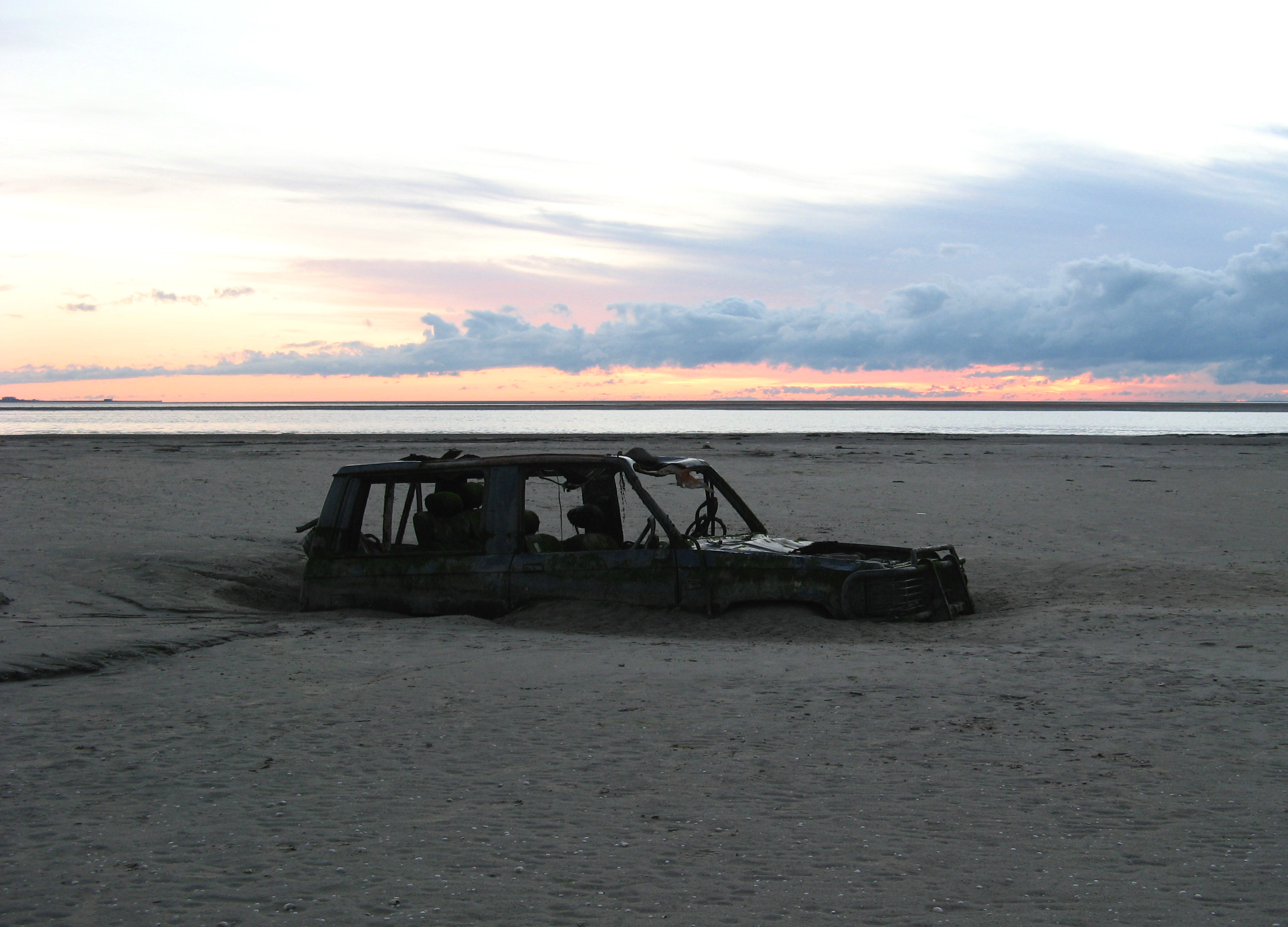 Abandoned Isuzu Trooper in Morecambe Bay, about 400 metres from the shore near Bolton-le-Sands.